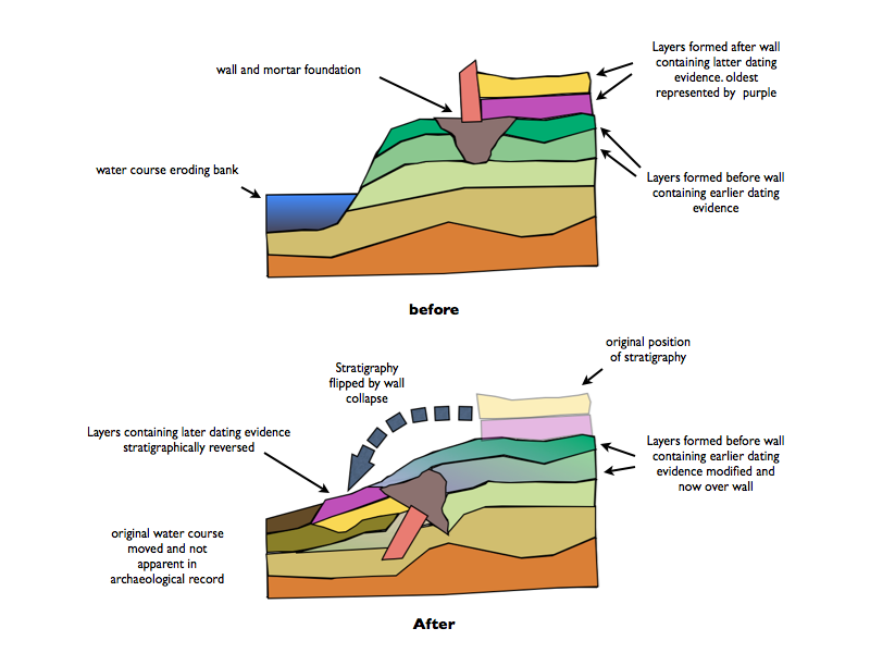 reverse stratigraphy graphic